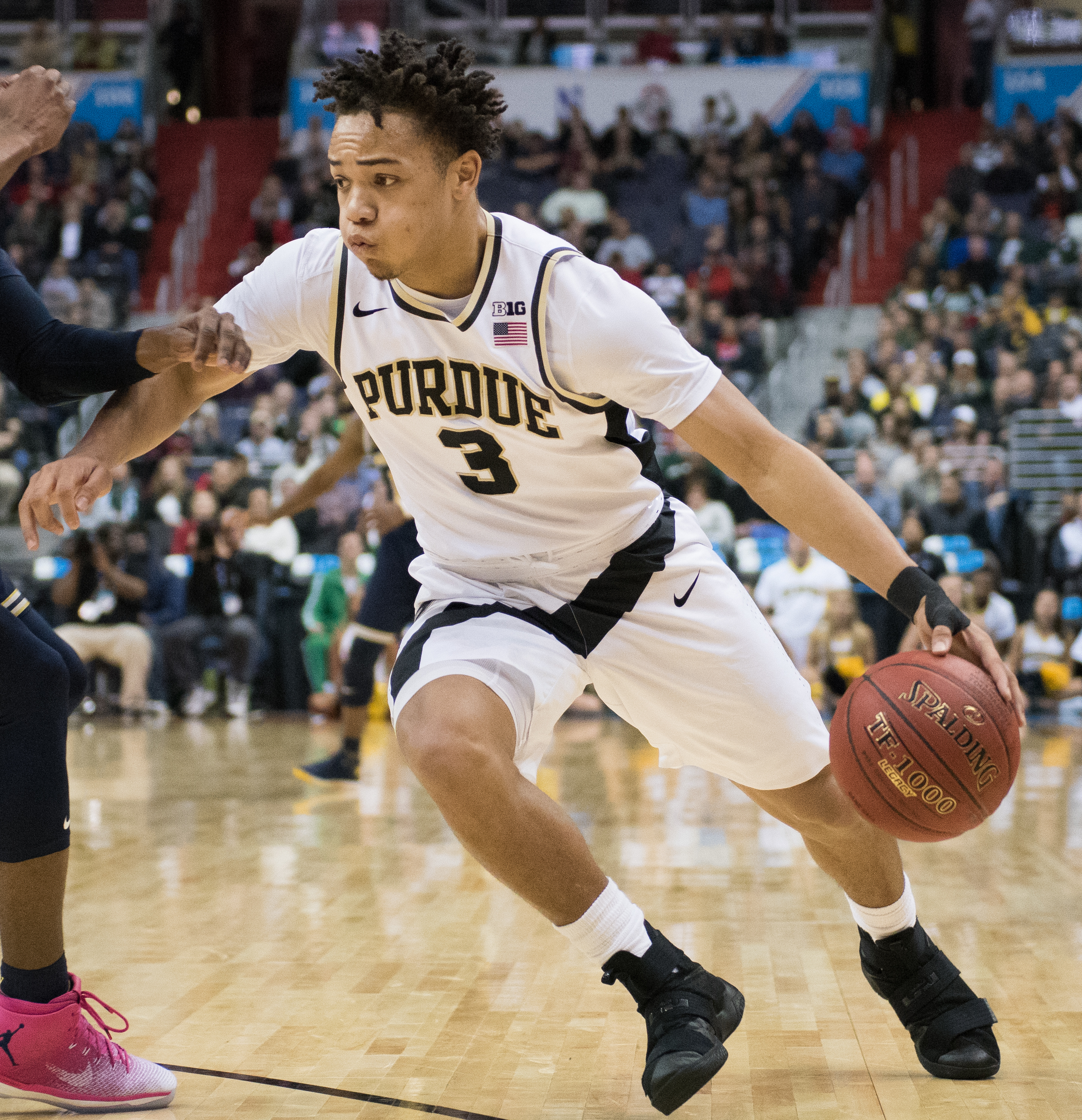 Carsen Edwards of Purdue